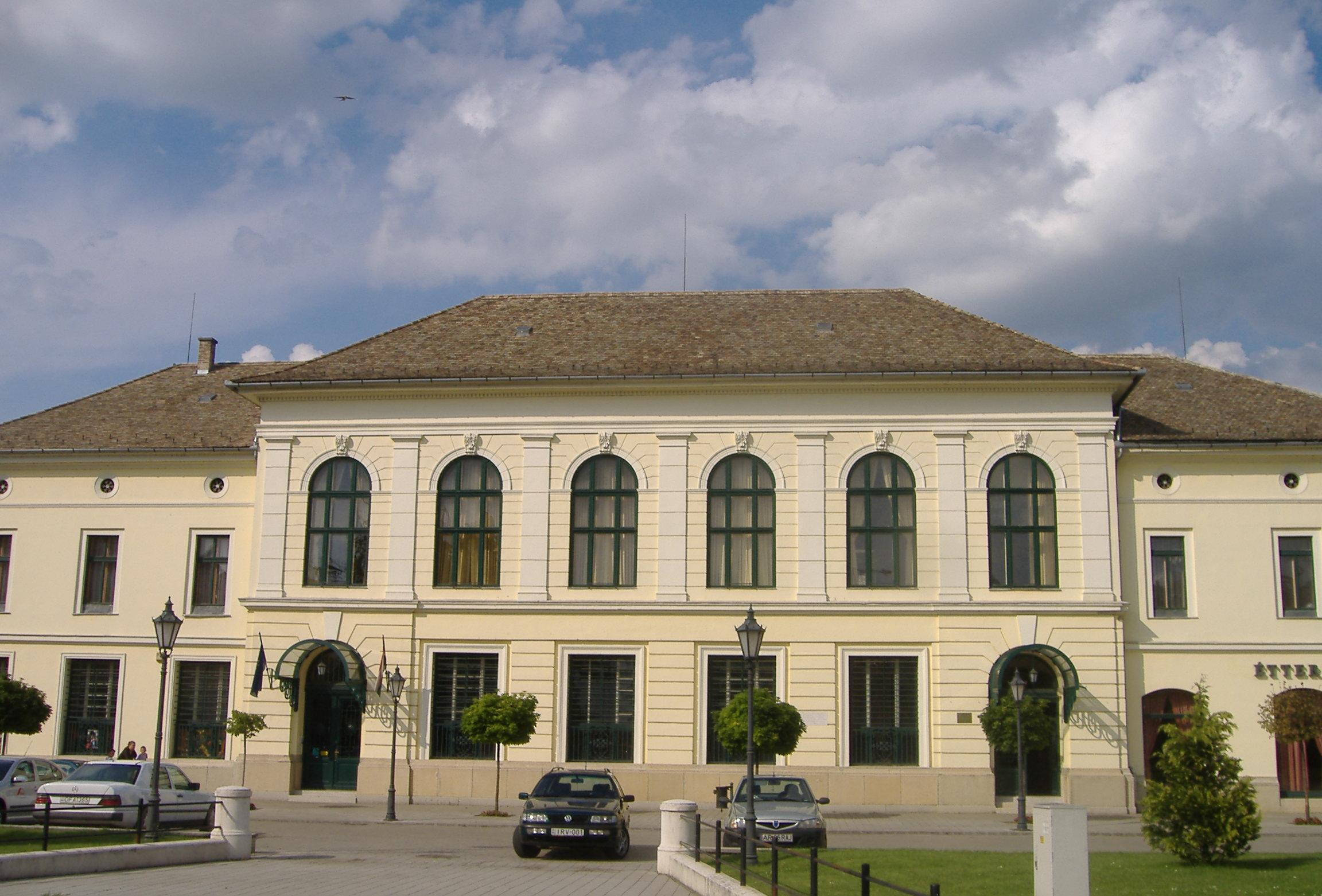 Hotel Korona ("crown") in Makó, Hungary